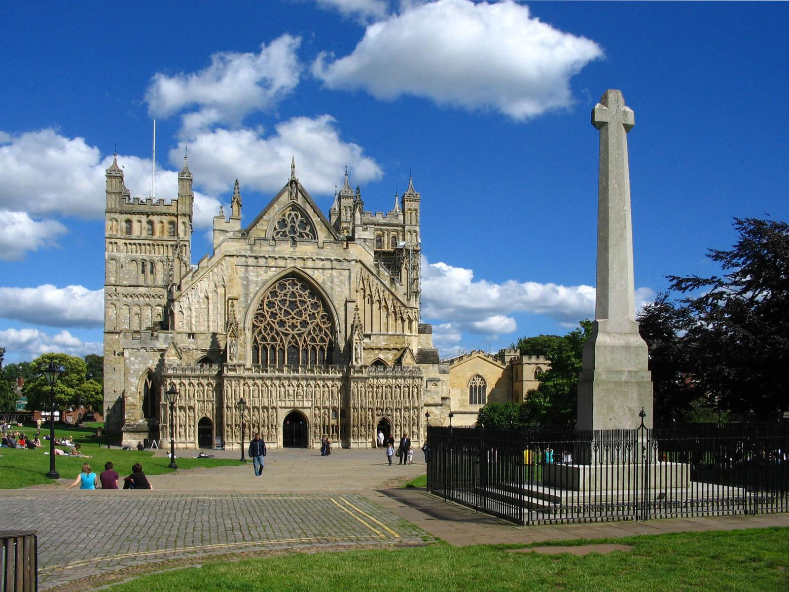 Exeter Cathedral